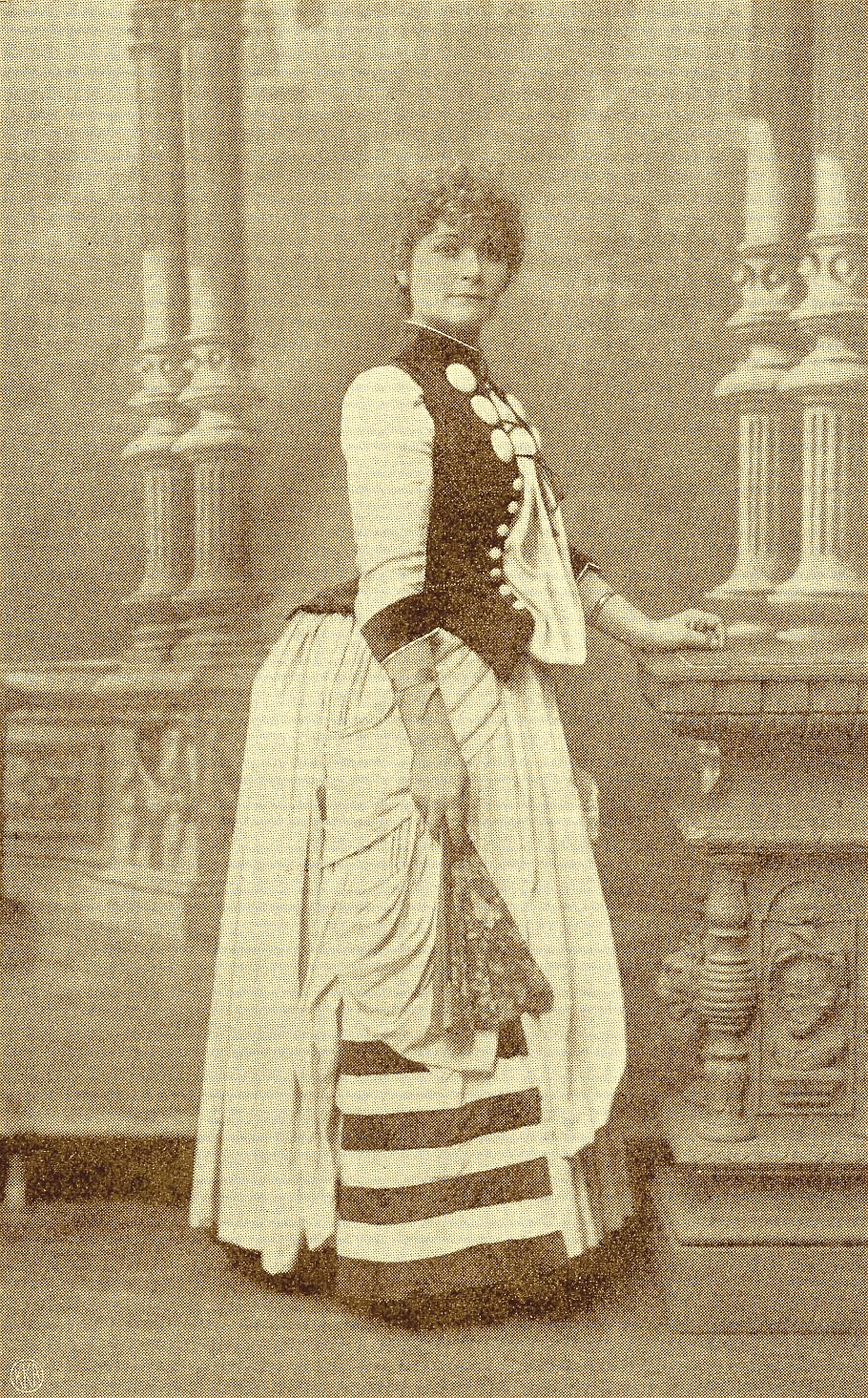 Octavia Sperati in the play Kalifen paa Eventyr.